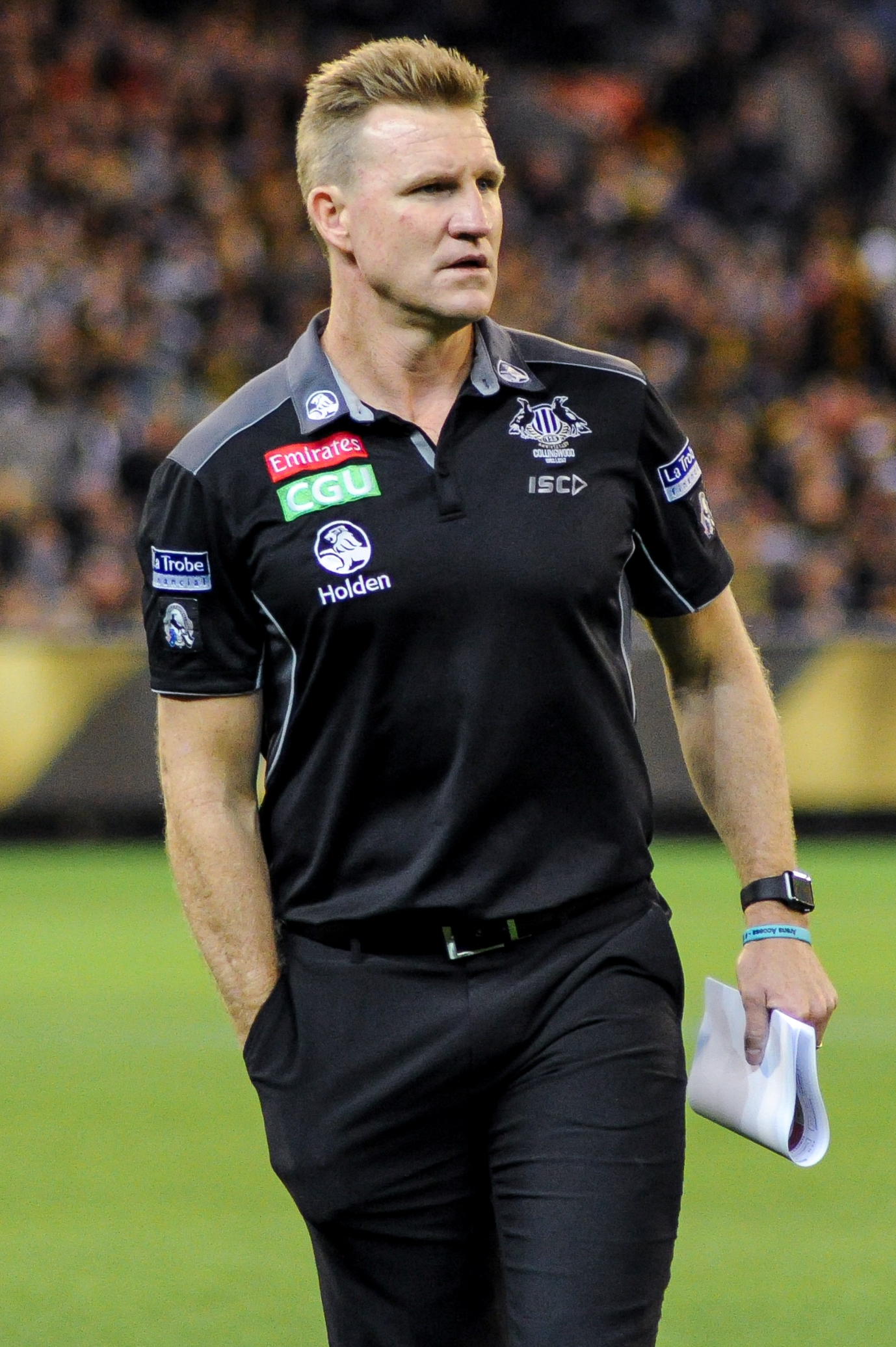 Nathan Buckley during the AFL round two match between Richmond and Collingwood on 30 March 2017 at the Melbourne Cricket Ground in Melbourne, Victoria.